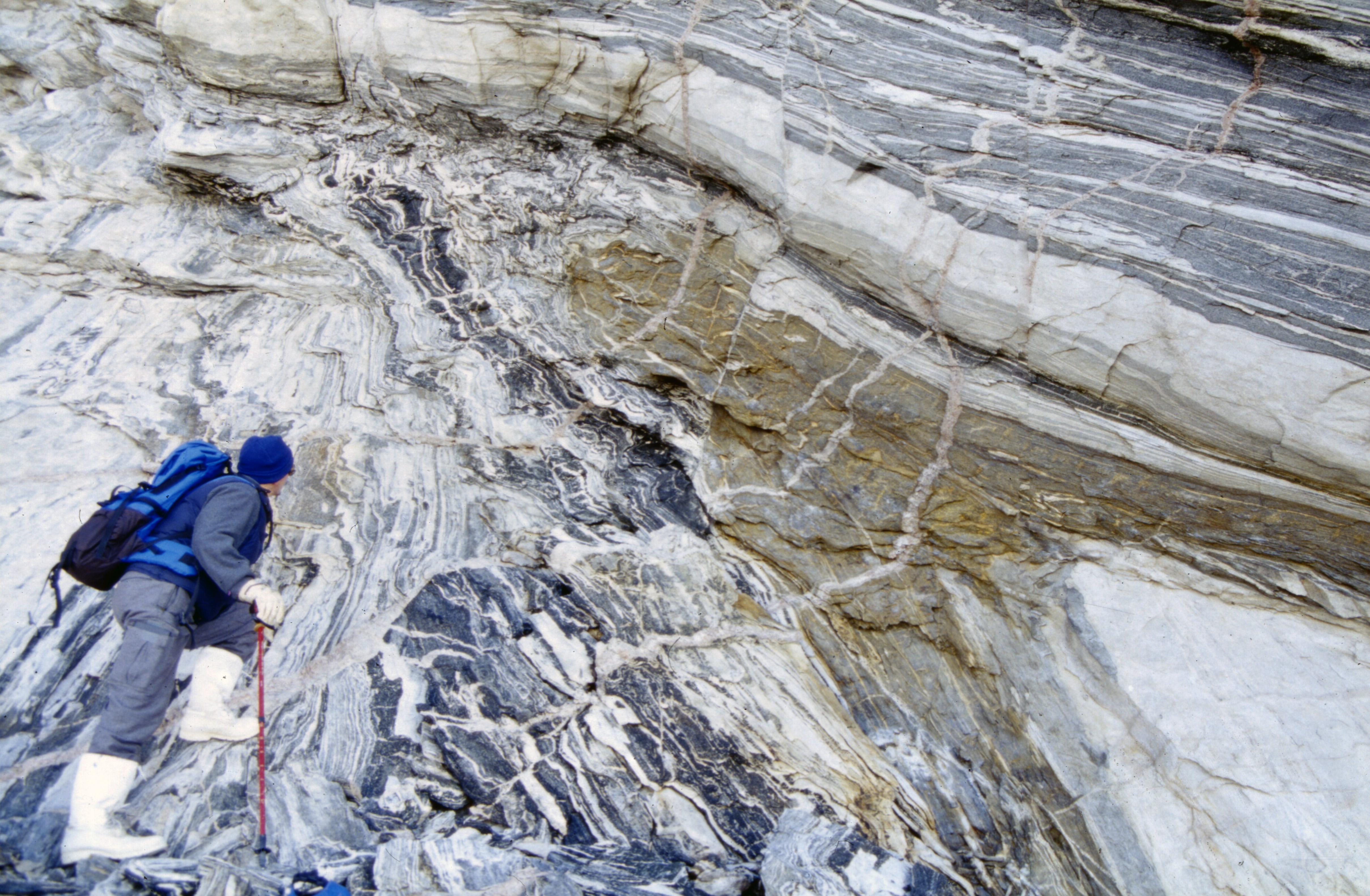 Tight fold in migmatitic gneisses, Armlenet, Gjelsvik Mountains, Antarctica